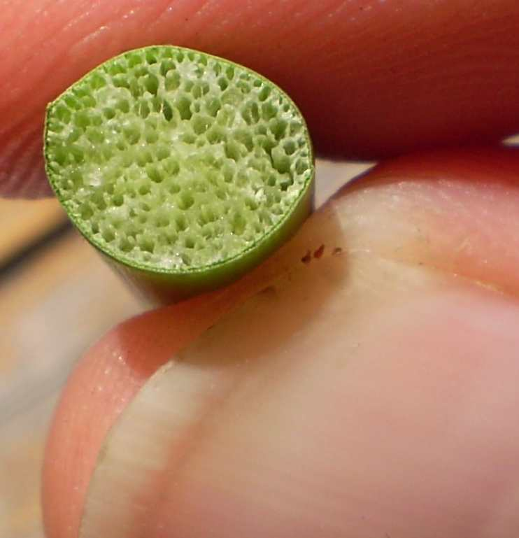 Aerenchyma of Schoenoplectus tabernaemontani